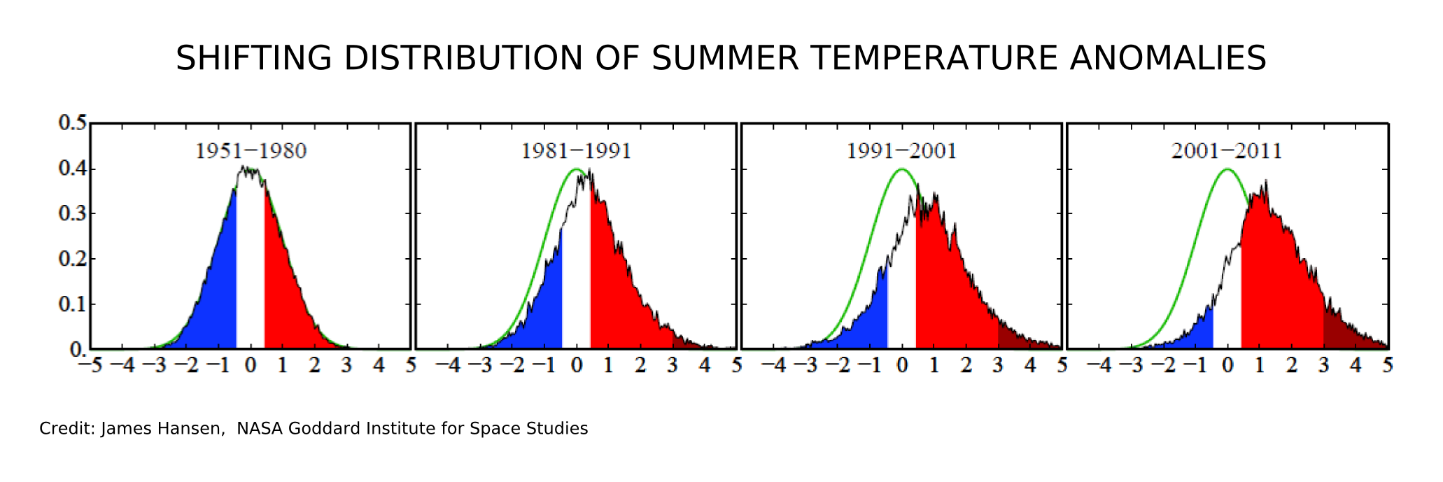 Frequency of occurrence (vertical axis) of local June-July-August temperature anomalies (relative to 1951-1980 mean) for Northern Hemisphere land in units of local standard deviation (horizontal axis). Temperature anomalies in the period 1951-1980 match closely the normal distribution ("bell curve", shown in green), which is used to define cold (blue), typical (white) and hot (red) seasons, each with probability 33.3%. The distribution of anomalies has shifted to the right as a consequence of the global warming of the past three decades such that cool summers now cover only half of one side of a six-sided die, white covers one side, red covers four sides, and an extremely hot (red-brown) anomaly covers half of one side..